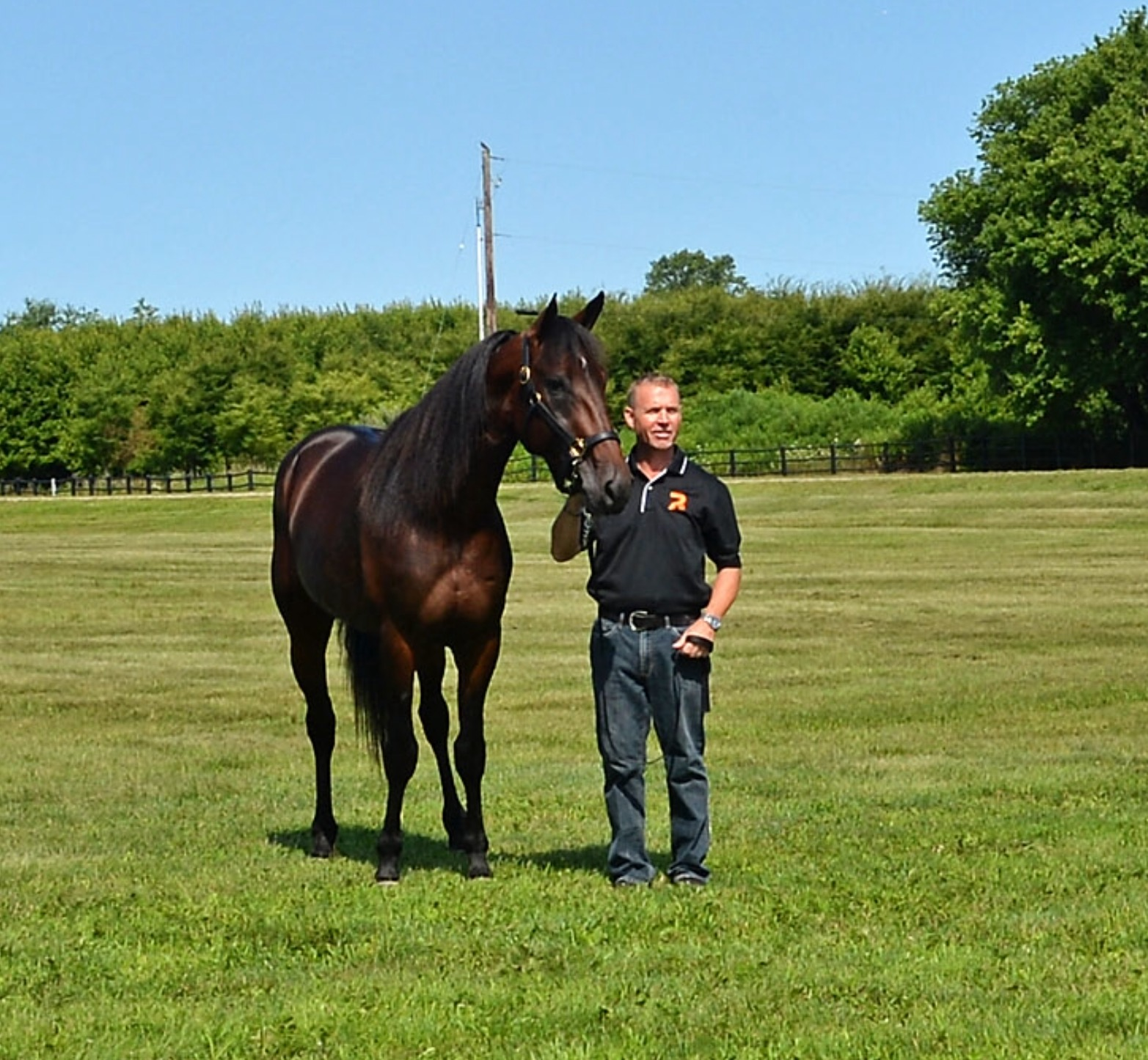 Trotter Father Patrick with trainer/coach Jimmy Takter.